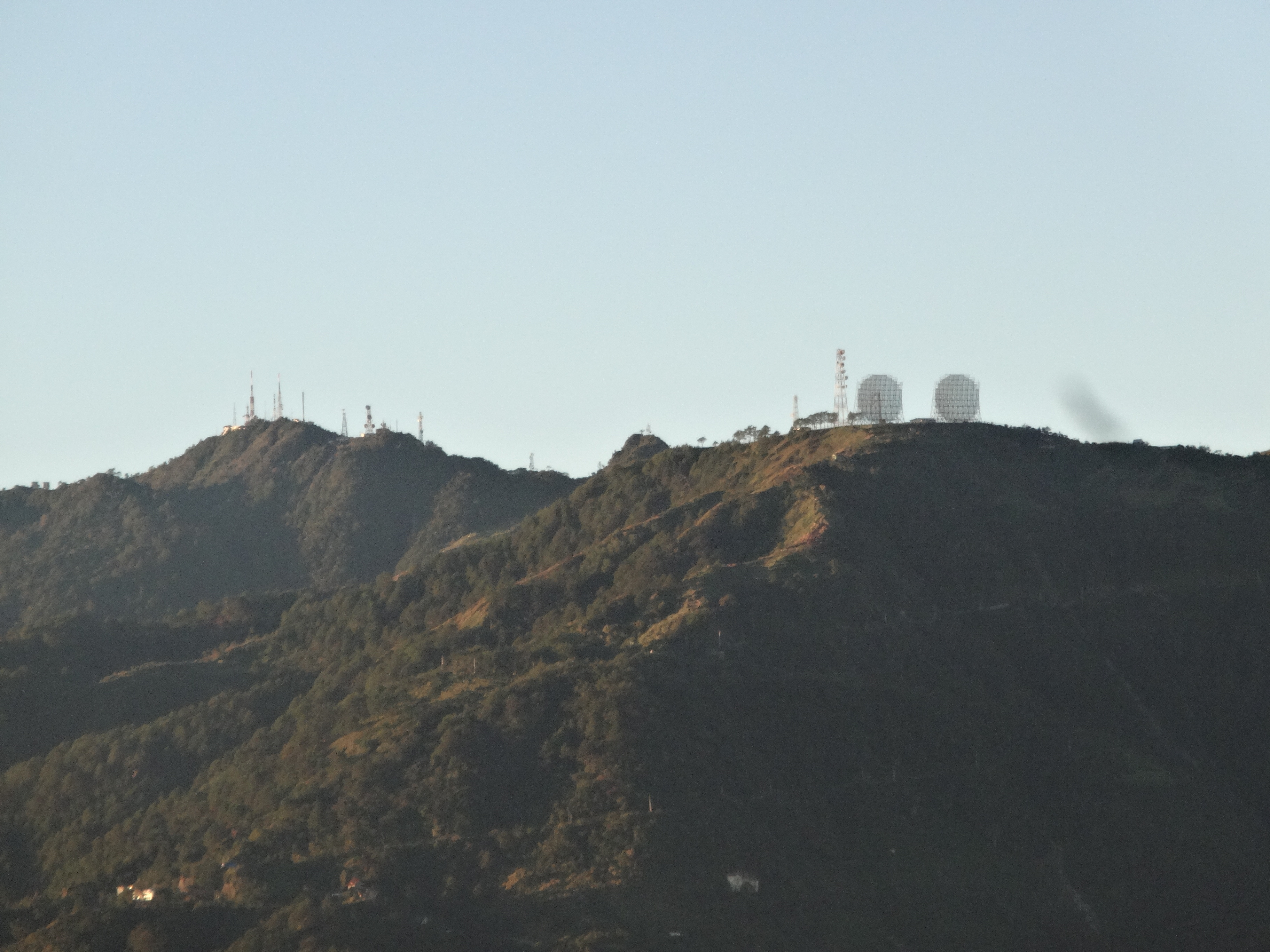 View of Mt. Santo Tomas and Mt. Cabuyao from Diplomat Hotel, Baguio City at sunrise